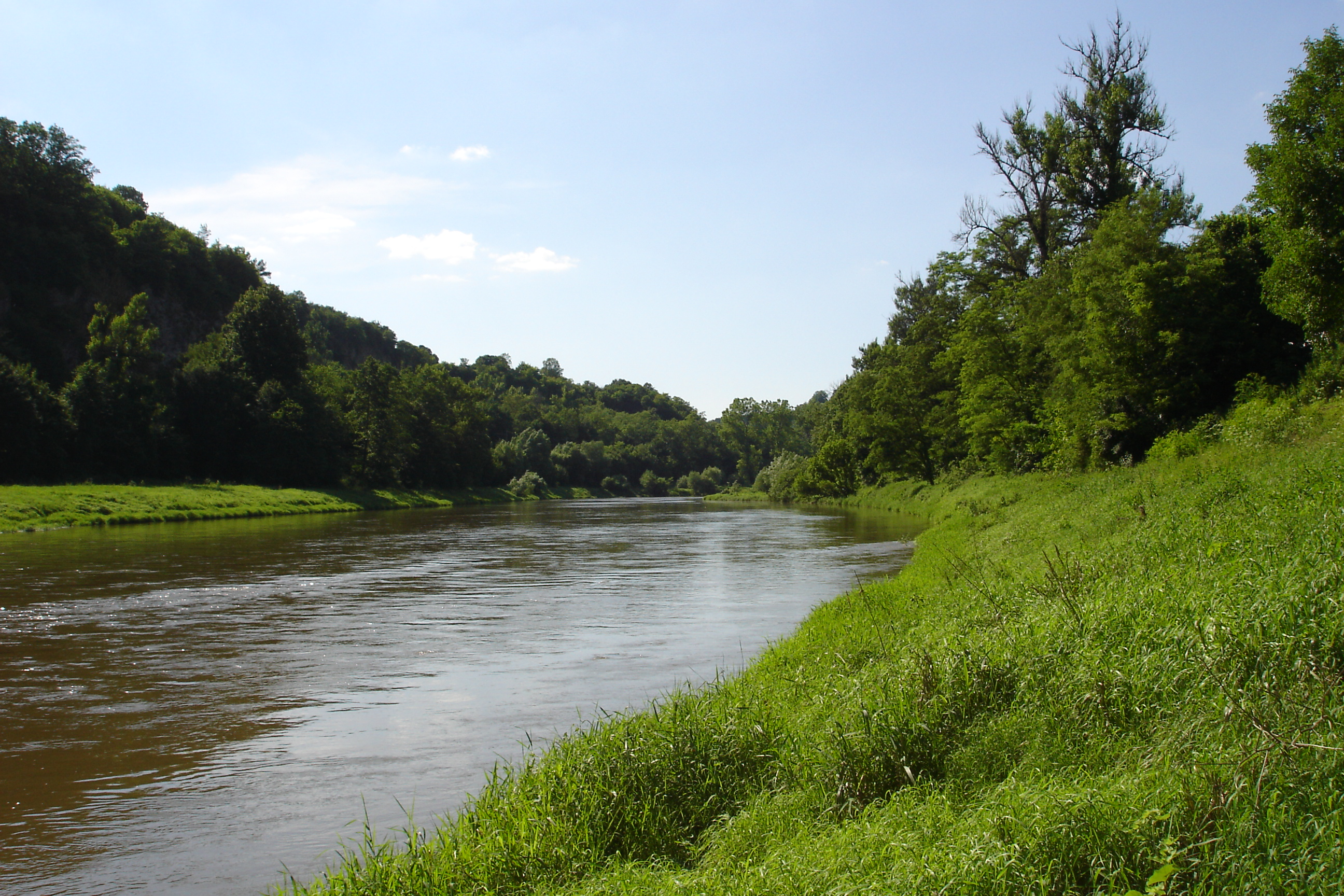 The Berounka river near the confluence with the Loděnice stream (Central Bohemian Region, Czechia).